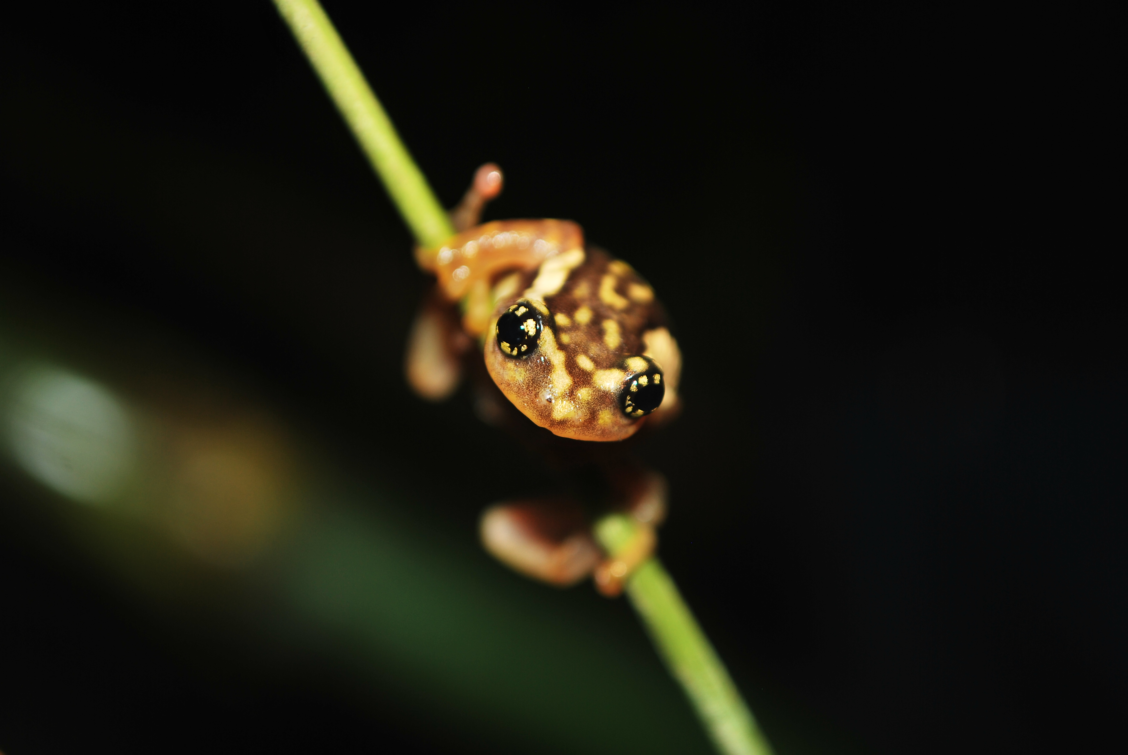 Raorchestus ochlandra belongs to family Rachophoridae and genus Raorchestus commonly known as bush frogs